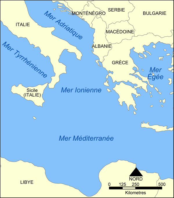 A map showing the location of the Ionian Sea